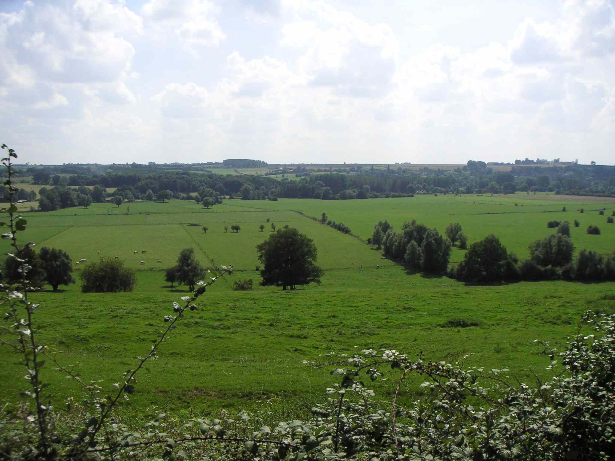 Valley of the Oise River in Thiérache, France